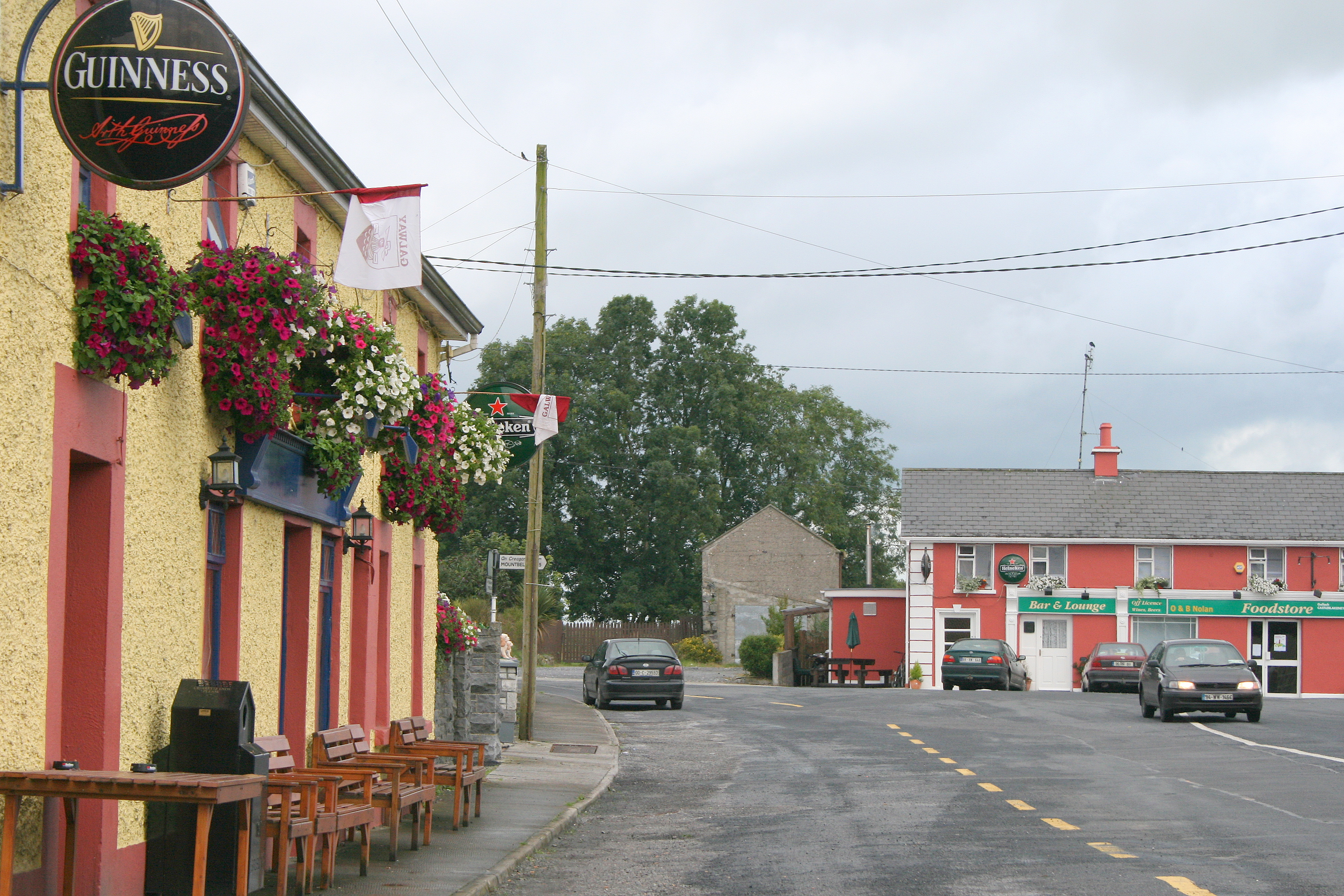 Castleblakney, County Galway